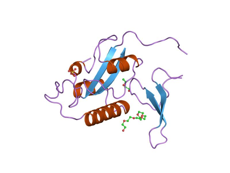 Cartoon representation of the molecular structure of protein registered with 1pin code.